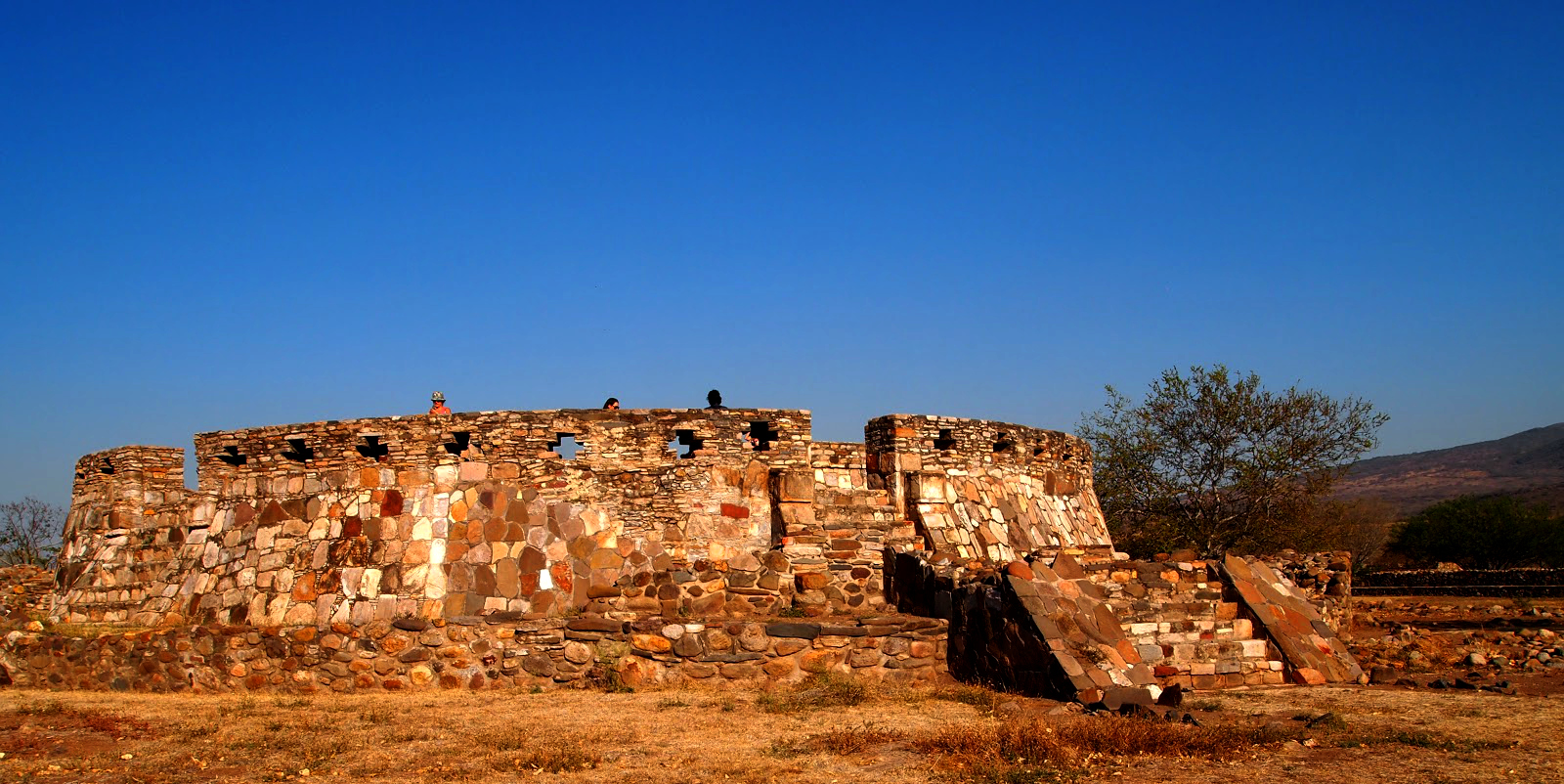 Pyramid